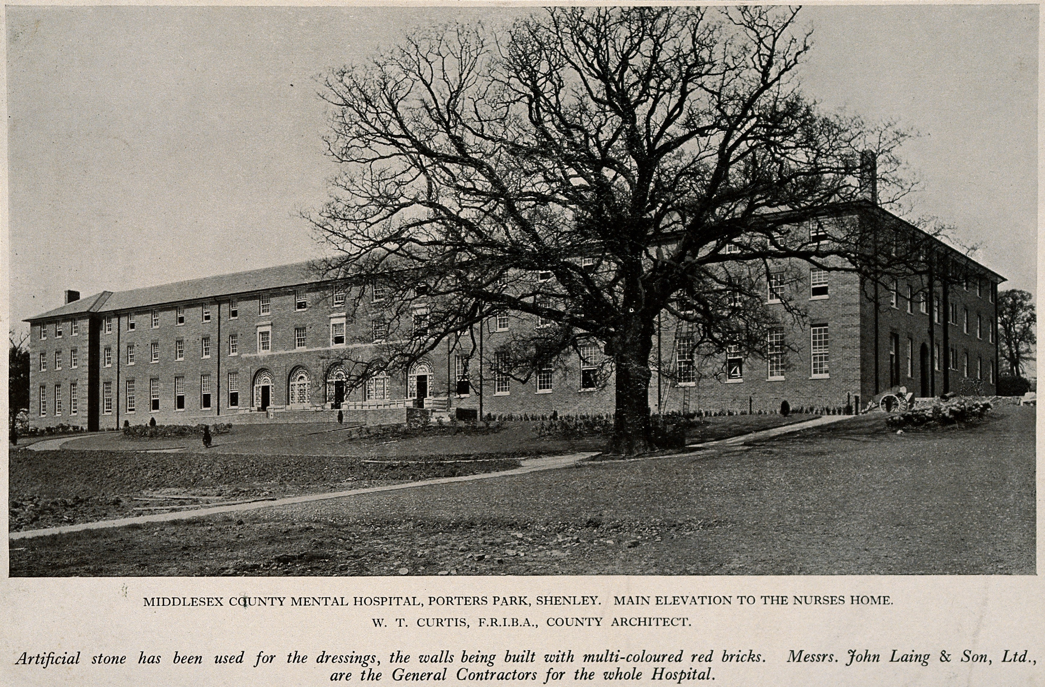 Middlesex County Mental Hospital, Porters Park, Shenley: main elevation to the nurses home. Process print, 1926. Iconographic Collections Keywords: William Thomas Curtis; Middlesex County Mental Hospital; Middlesex County Council